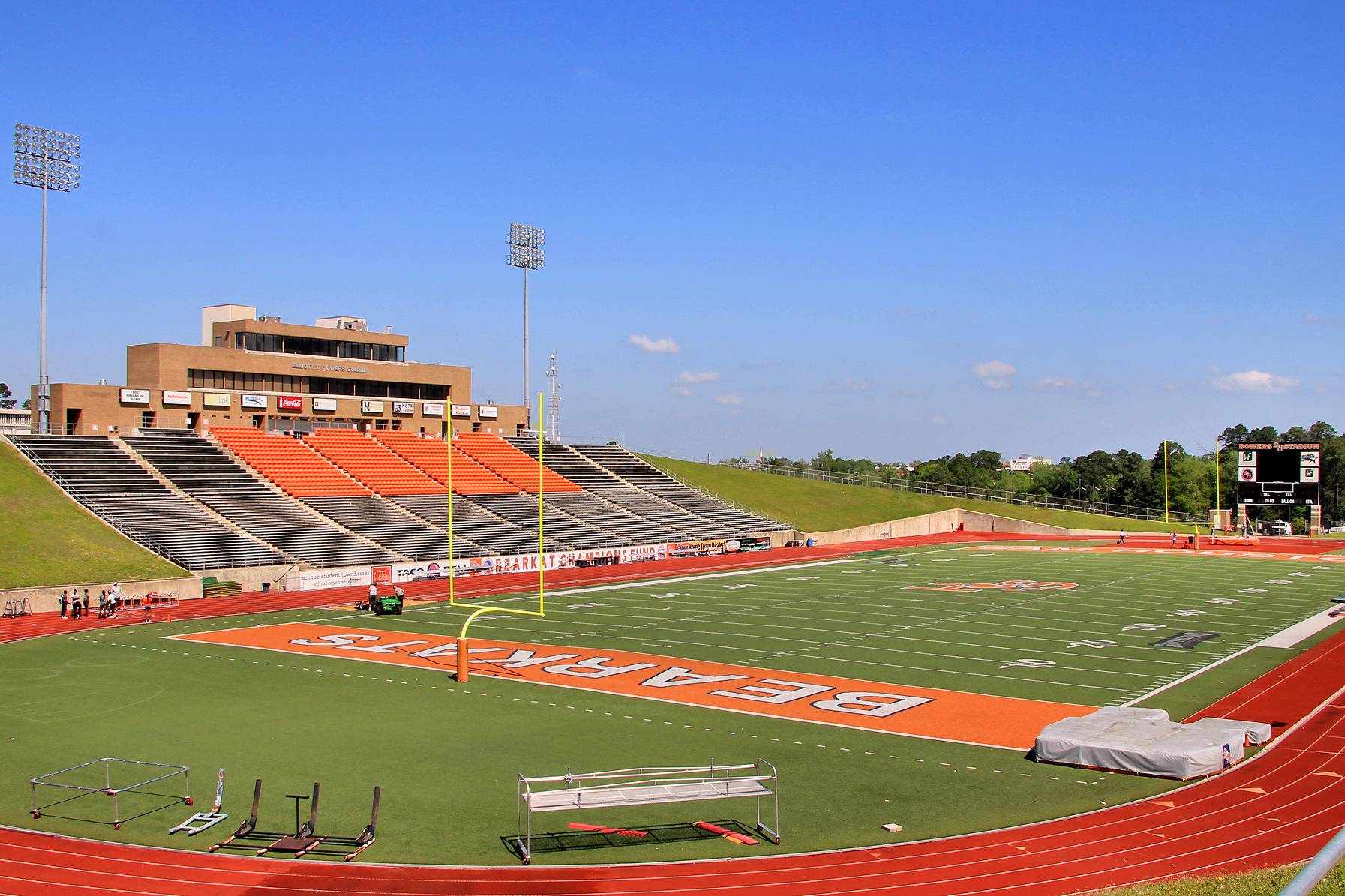 Elliott T. Bowers Stadium, on the campus of Sam Houston State University in Huntsville, Texas, United States.